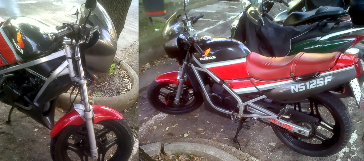 Honda NS 125 F photographed from two different perspectives